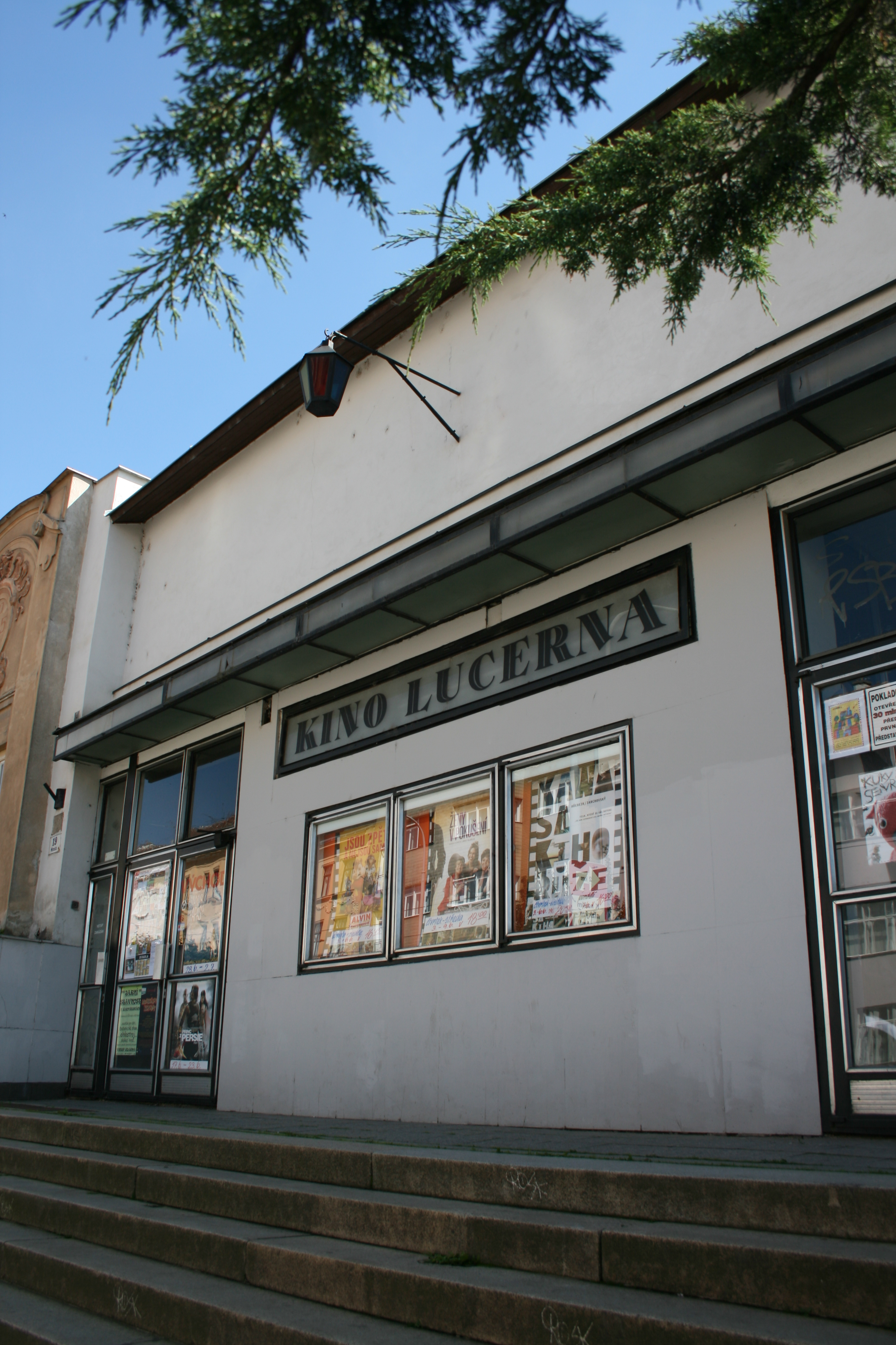 Lucerna Theatre in Brno, Czech Republic.